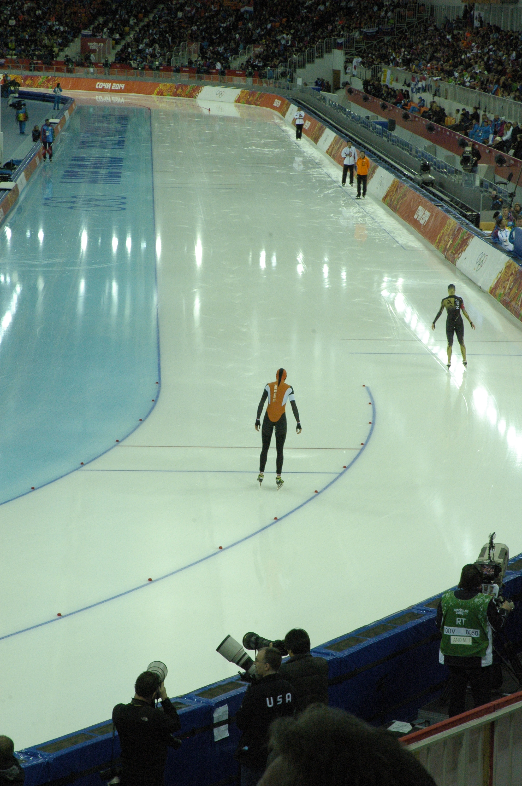 Women's 1500m, 2014 Winter Olympics, Jorien ter Mors & Ayaka Kikuchi